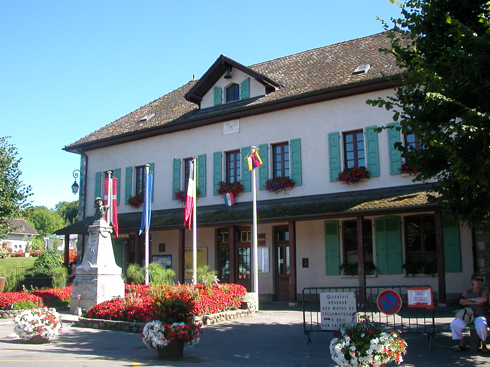 Town hall of Yvoire